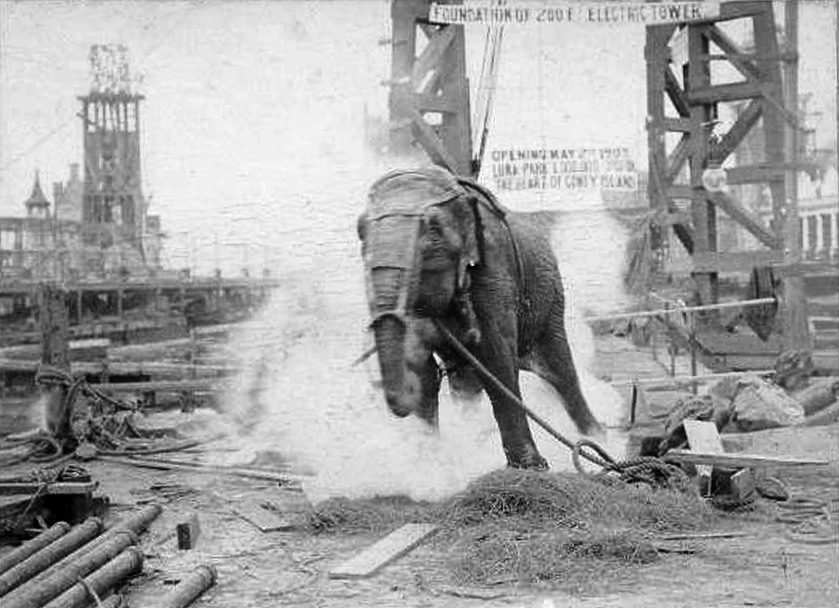 A press photograph from a January 4, 1903 electrocution of Topsy the elephant in an event to raise publicity about the opening of the new Conney Island amusement park "Luna Park" (at this point still under construction). The photograph was taken just when 6600 volts of electricity was turned on. Behind Topsy is the bridge over the lagoon of the "Shoot the Chutes" ride to an island in the middle. On the island is the unfinished "Electric Tower" with a sign advertising "OPENING MAY 2ND 1903 LUNA PARK $1,000,000 EXPOSITION, THE HEART OF CONEY ISLAND", and "FOUNDATION OF 200FT ELECTRIC TOWER" in the background.